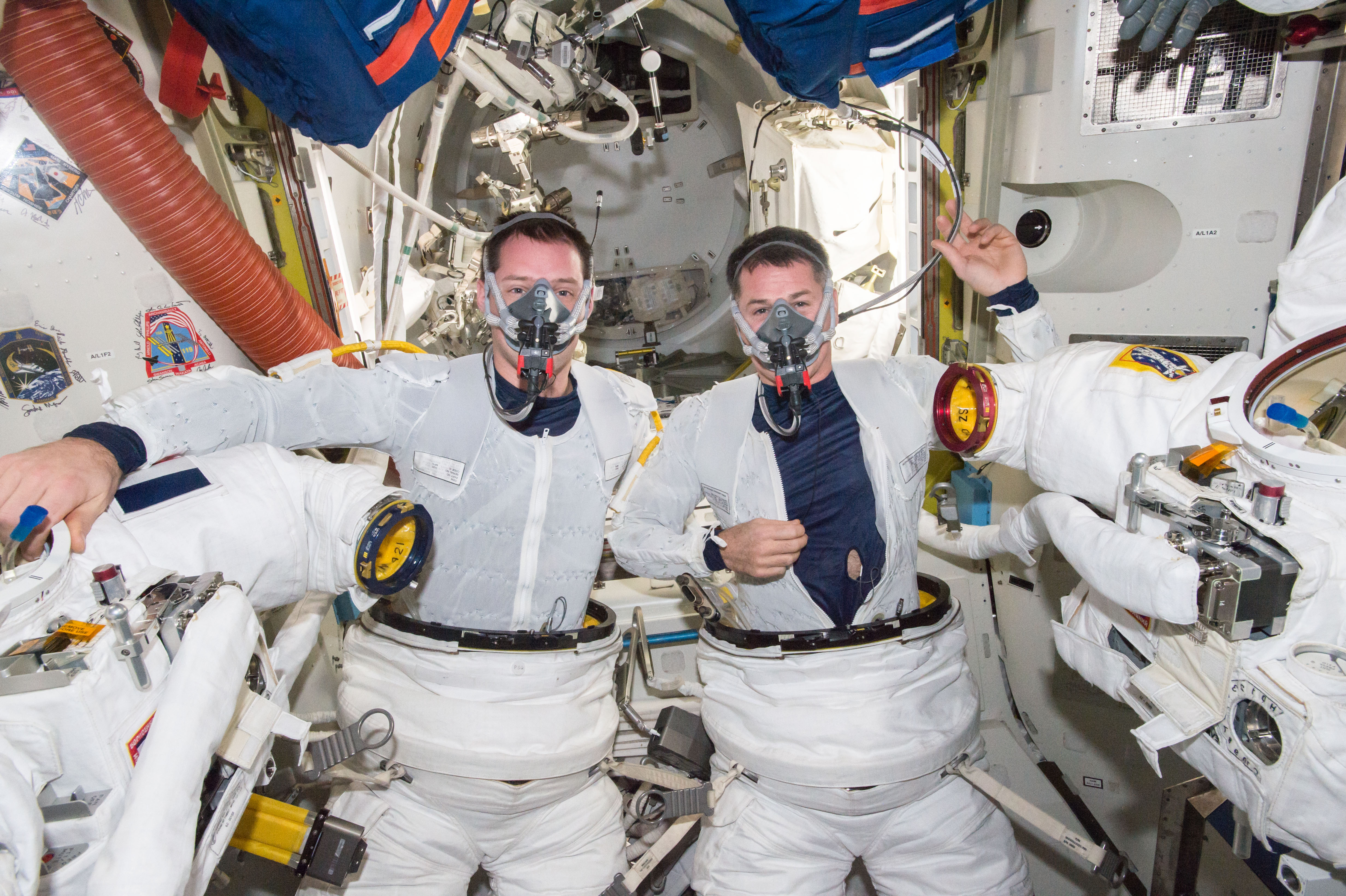 NASA astronaut Shane Kimbrough (right) and ESA astronaut Thomas Pesquet (left) inside the Quest airlock during their pre-breathe session prior to a spacewalk. Astronauts breathe 100% oxygen prior to a spacewalk to help purge excess nitrogen from their blood stream and avoid decompression sickness. During the nearly six hour spacewalk, the two astronauts successfully installed three new adapter plates and hooked up electrical connections for three of the six new lithium-ion batteries on the International Space Station. Astronauts were also able to accomplish several get-ahead tasks including stowing padded shields from Node 3 outside of the station to make room inside the airlock and taking photos to document hardware for future spacewalks.